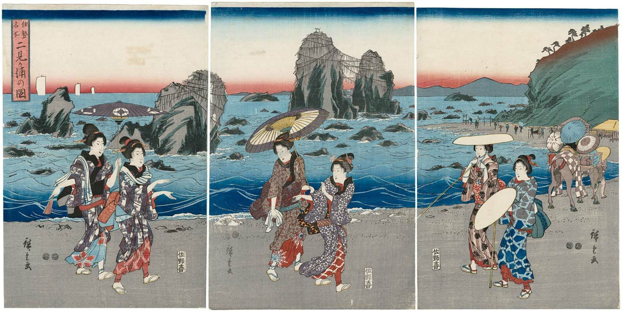 Japanese wood-print, Ukiyo-e. View of Futamigaura (Futamigaura no zu), from the series Famous Places in Ise (Ise meisho). Edo period, 1847–52 (Kôka 4–Kaei 5) Artist Utagawa Hiroshige I, Publisher Sanoya Kihei (Sanoki, Kikakudô)